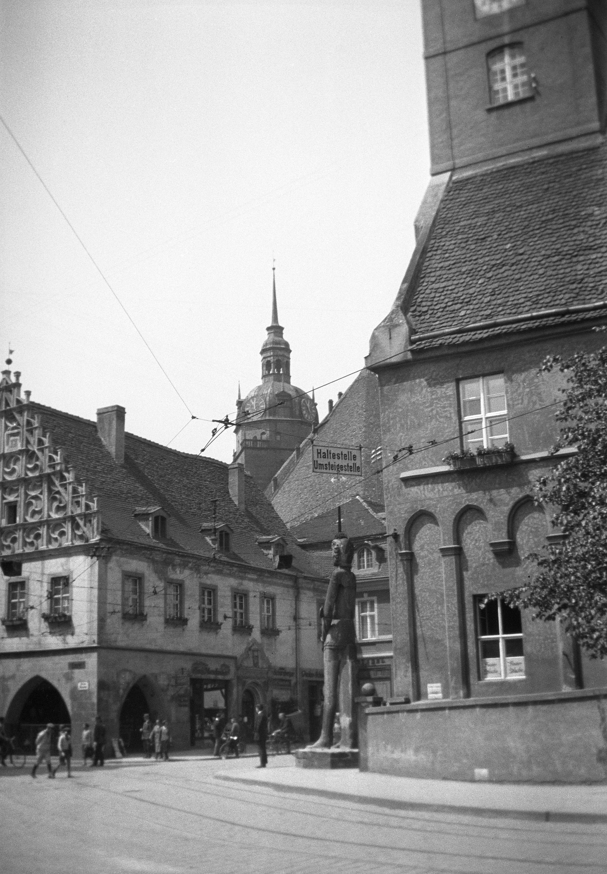 Kurfürstenhaus to the left and the New Town Hall ( Neustädtische Rathaus) to the right, at Hauptstrasse street in Brandenburg an der Havel. In the background is the tower of St. Katharinen church. A statue of knight Roland at the corner of the Town Hall. Kurfürstenhaus till vänster och nya rådhuset (Neustädtische Rathaus)til höger, vid Hauptsrasse i Brandenburg an der Havel. I bakgrunden tornet till kyrkan Sankt Katharinen. En staty av riddare Roland vid hörnet av Rådhuset. Location: Brandenburg an der Havel, Brandenburg, Germany, Deutschland Photograph by: Berit Wallenberg Date: 17.06.1927 Format: Film Persistent URL: Read more about the photo database (in english)